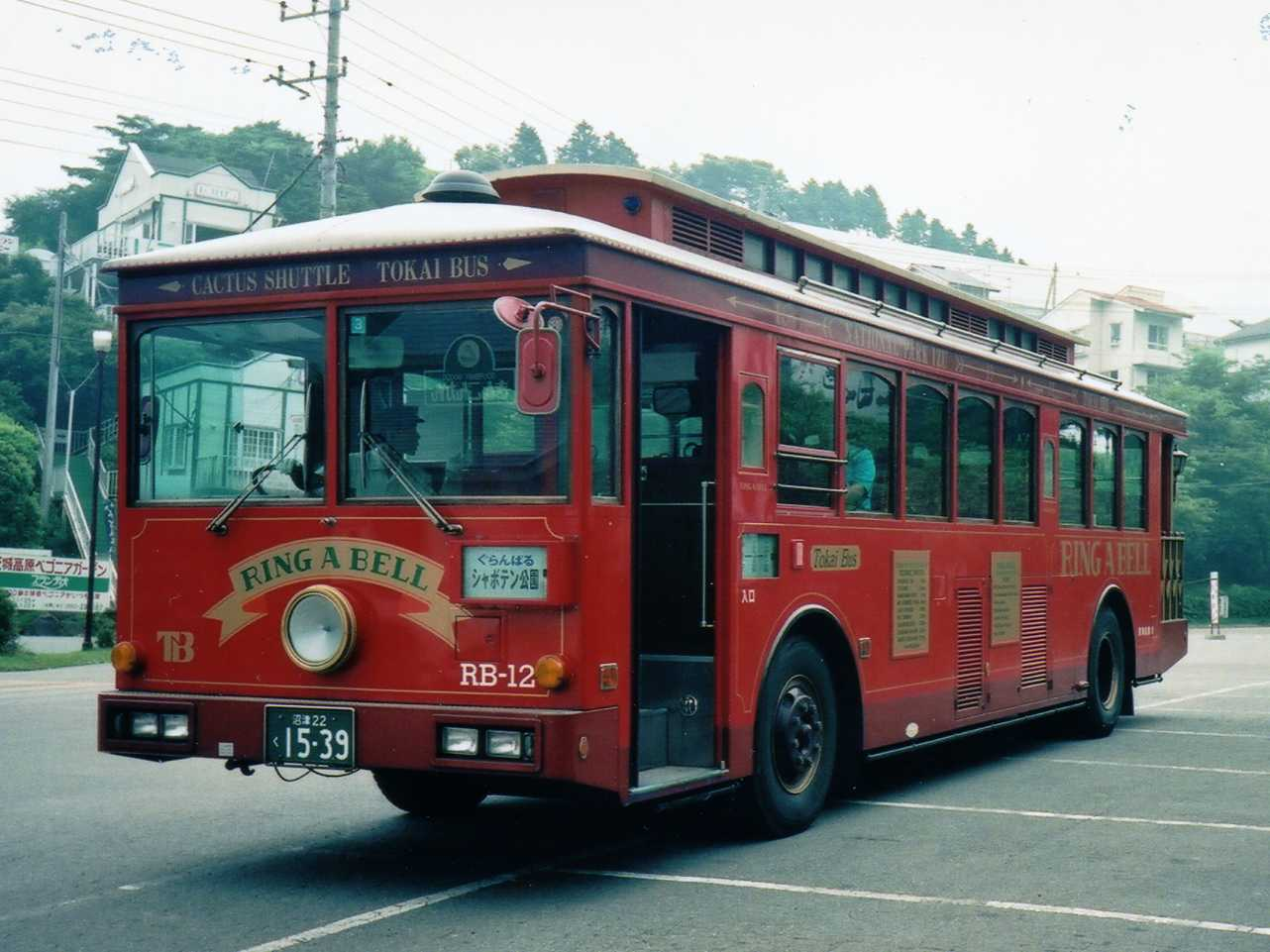 Tokai Bus 341 "RING A BELL" Hino P-CG277AA at Cactus park